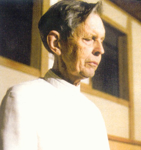 German Jesuit father Enomiya-Lasalle, missionary in Japan